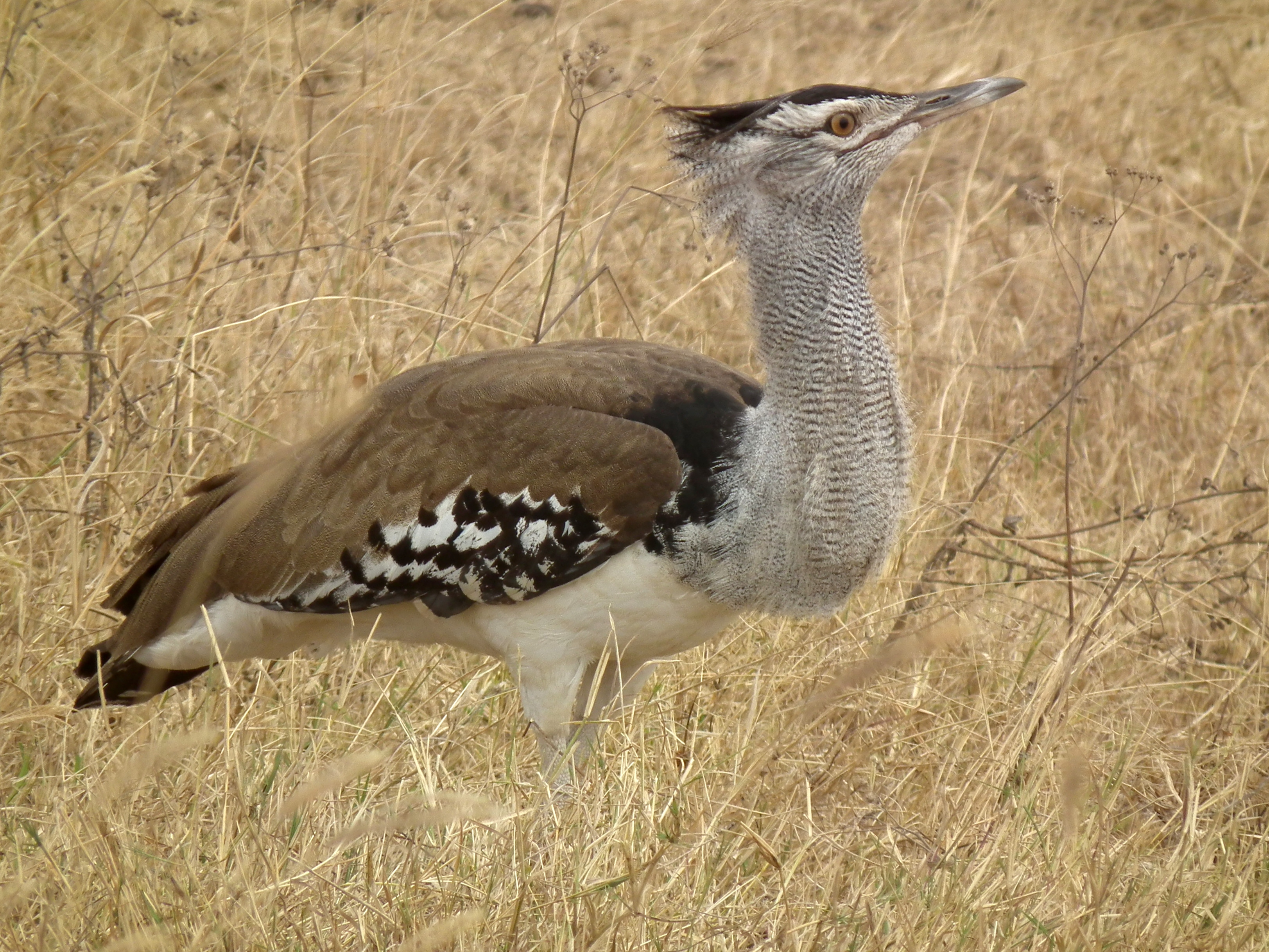 Kori Bustard (Ardeotis kori) in Tanzania